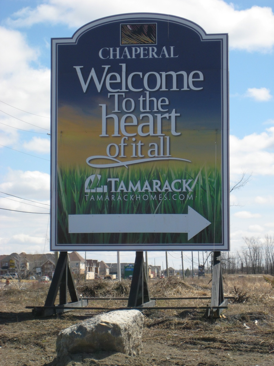 Taken at the corner of Tenth Line Road and Blackburn Bypass, the entrance to the community of Chaperal, in Orleans (Ottawa), Ontario.